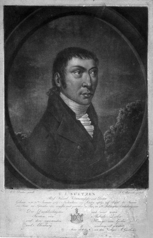 Ulrich Jasper Seetzen. A black-and-white print of a mezzotint by F. C. Bierweiler after E. C. Dunker. First published by A. Garlichs in Jever in 1818